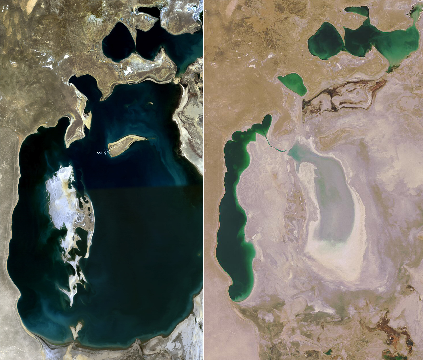 Comparison of Aral Sea between 1989 and 2008